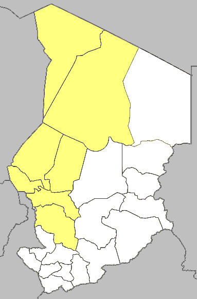 In yellow, the map of the Diocese of Ndjamena, Chad.